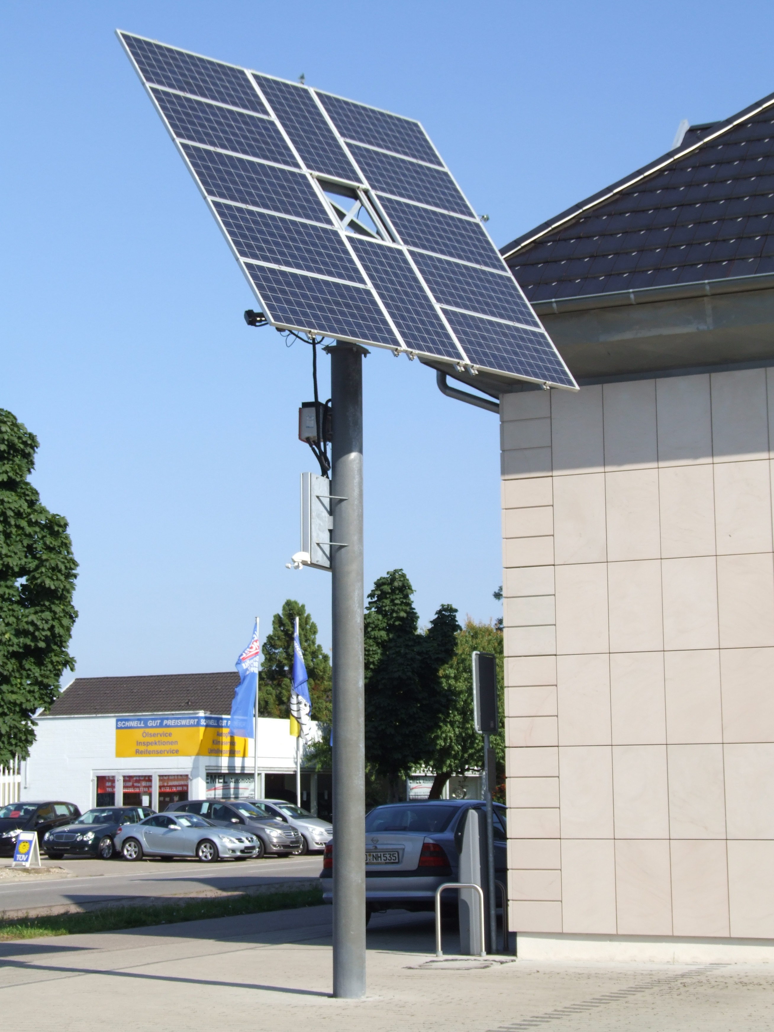 Solar electric fuel station